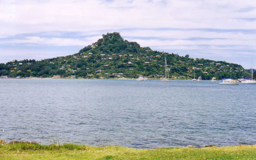 Tairua, Coromandel Peninsula. Photograph taken in February 2000 by James Dignan.